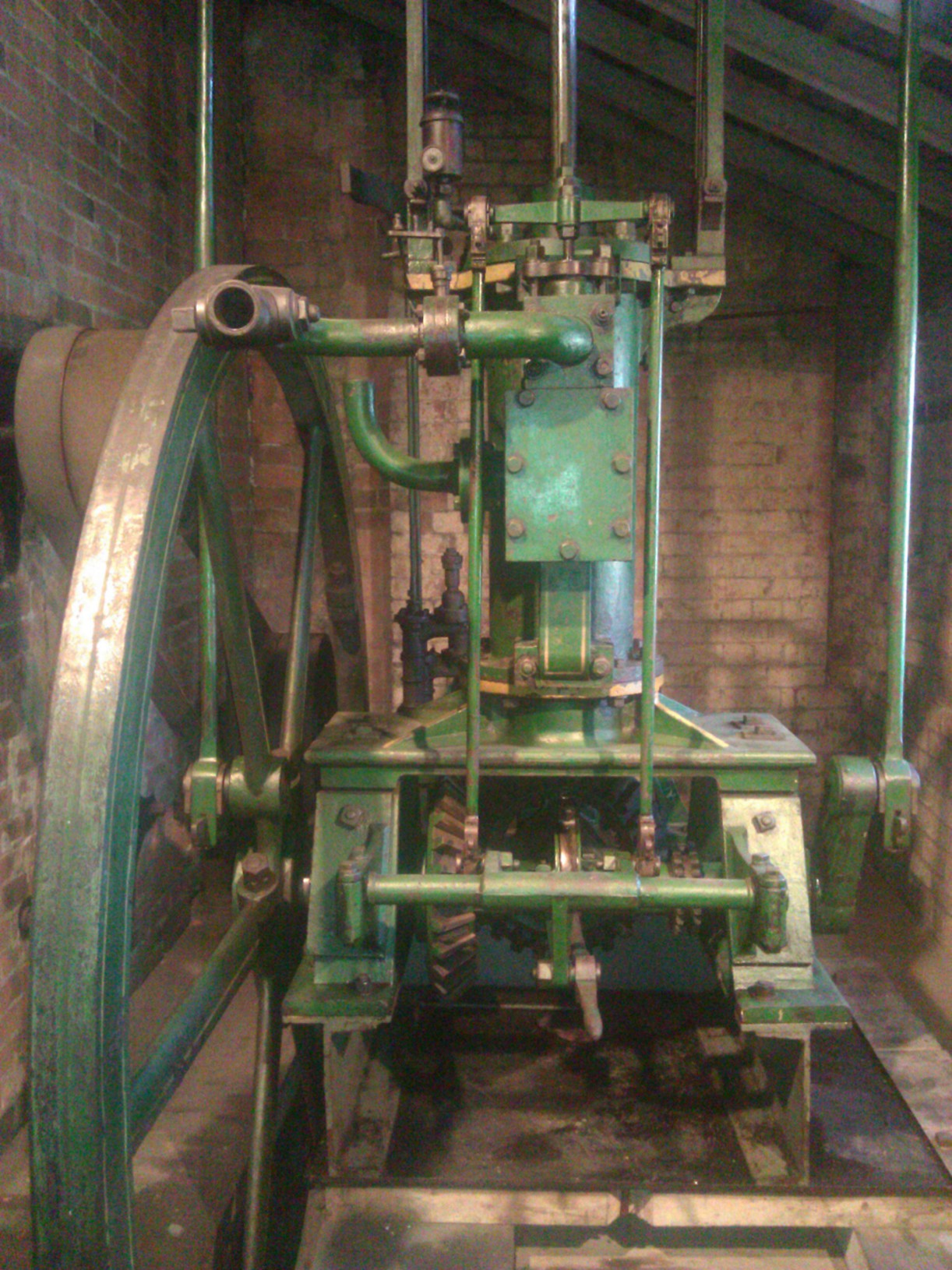 The steam engine at Sarehole Mill, single cylinder, 16 hp. Matthew Boulton and James Watt.